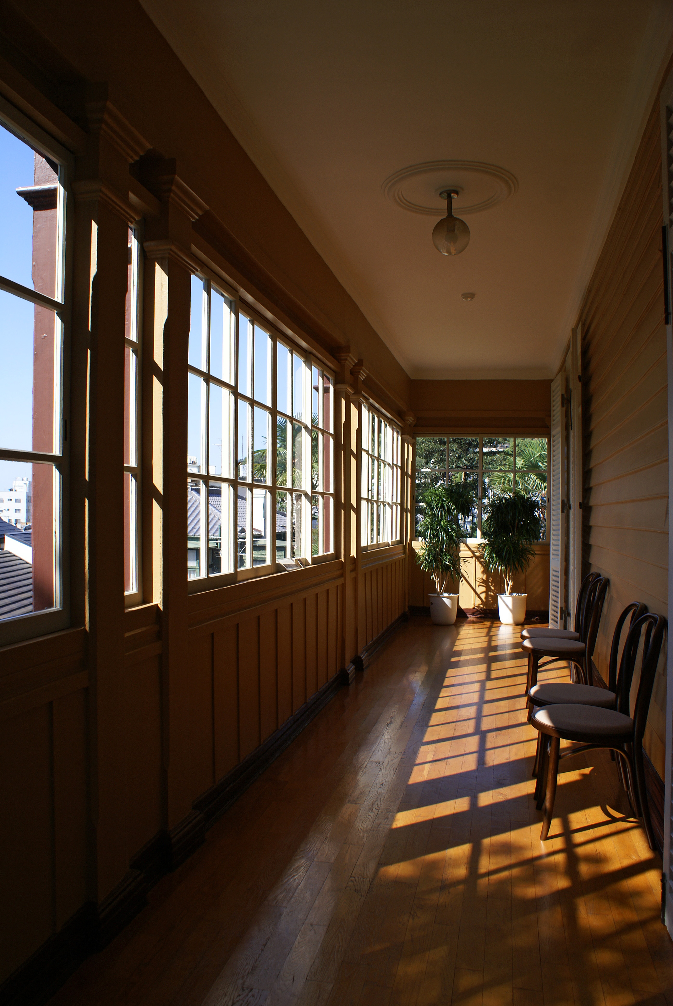 Old Drewell house in Kobe, Japan